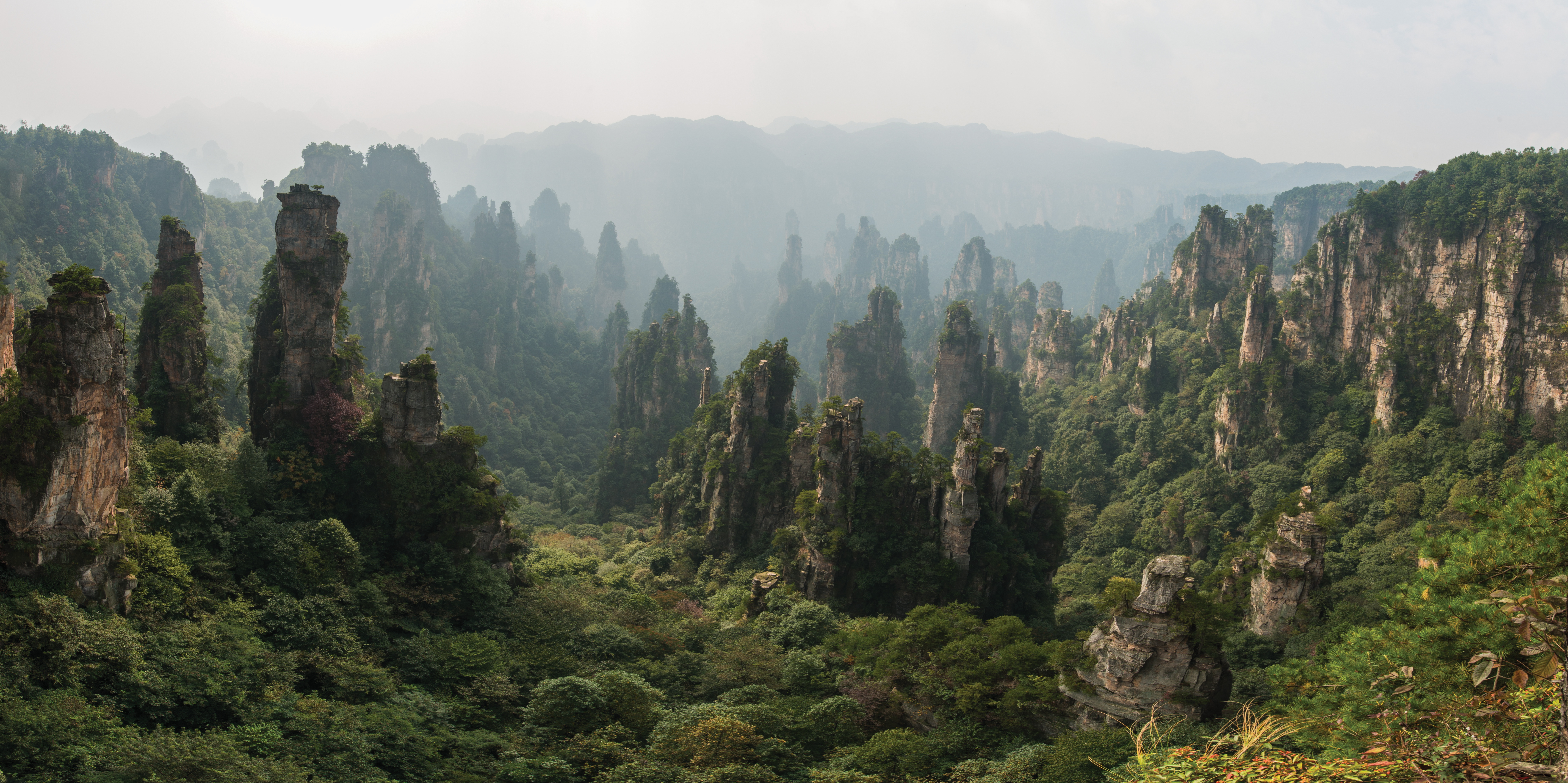 Panoramic view from Mount Tianzi Shan, Wulingyuan Zhangjiajie hunan China tujia miao 2012